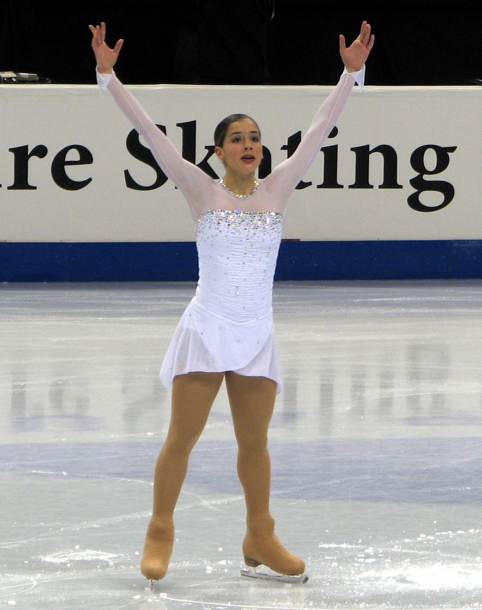 Katrina Hacker in the Ladies Short Program at the 2008 U.S. Figure Skating Championships.